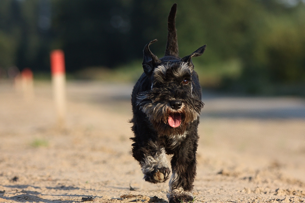 Miniature Schnauzer racing